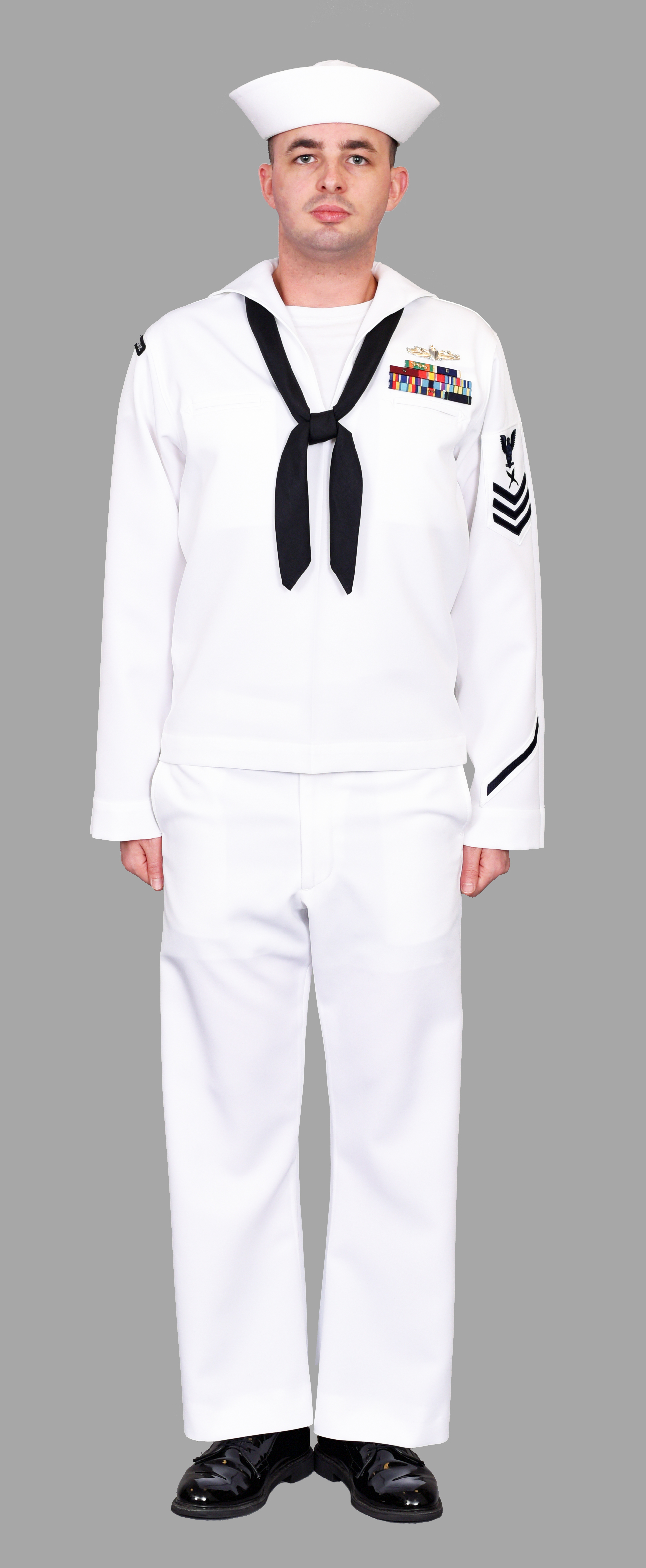 Enlisted Service Dress White uniform